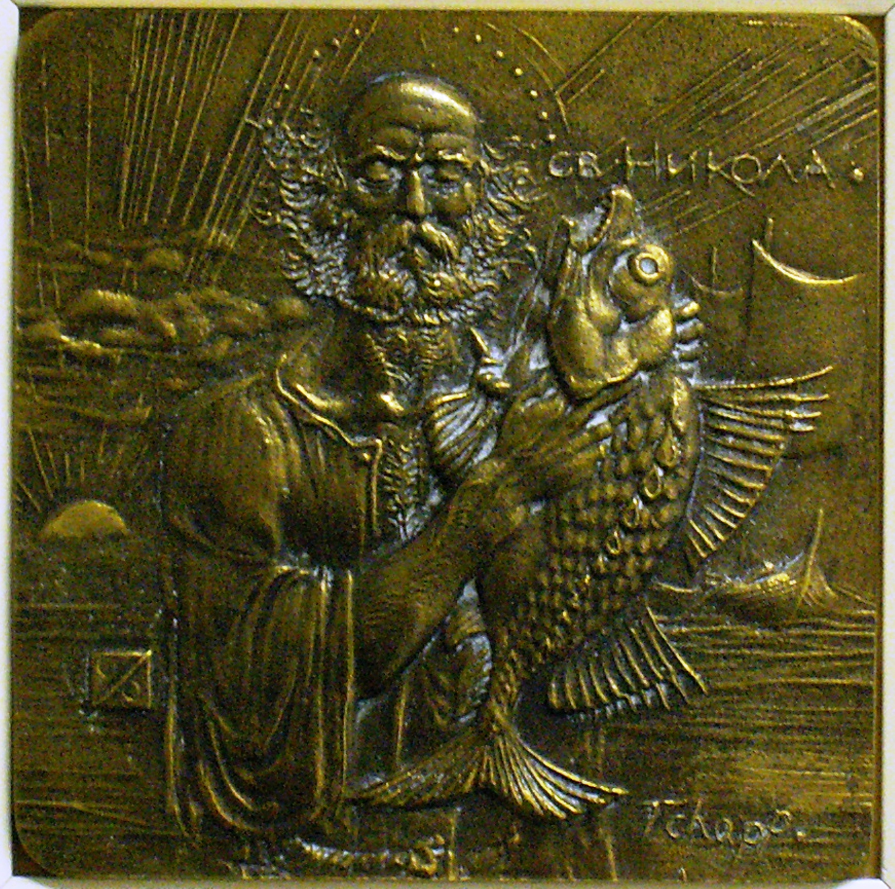 Metal icon of St. Nicholas by the Bulgarian artist Georgi 'Chapa' Chapkanov. The premises of the Falklands Legislative Assembly at Gilbert House in Stanley, Falkland Islands. As a patron saint of fishermen the Saint is uniquely depicted holding a fish, fishing being the mainstay of Falklands economy.